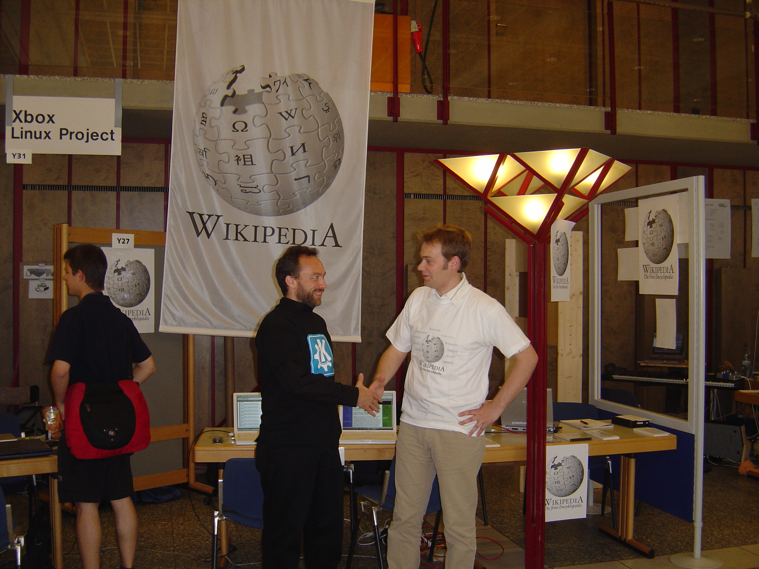 Jimbo Wales and Matthias Ettrich (right) at the Wikipedia booth at Linuxtag Karlsruhe